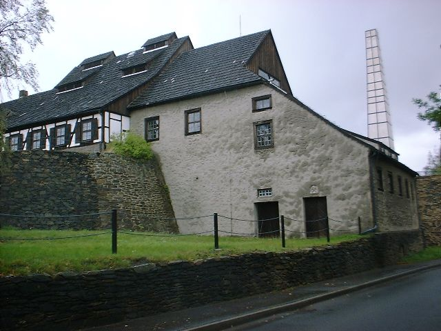 Historic silver mine "Alte Elisabeth" in Freiberg, Saxony, Germany.